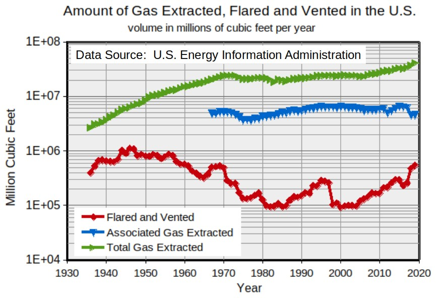 Natural gas extraction and flaring/venting data is from the U.S. Energy Information Administration.